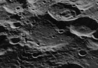 Oblique view of Alekhin, on the far side of the moon, facing west.